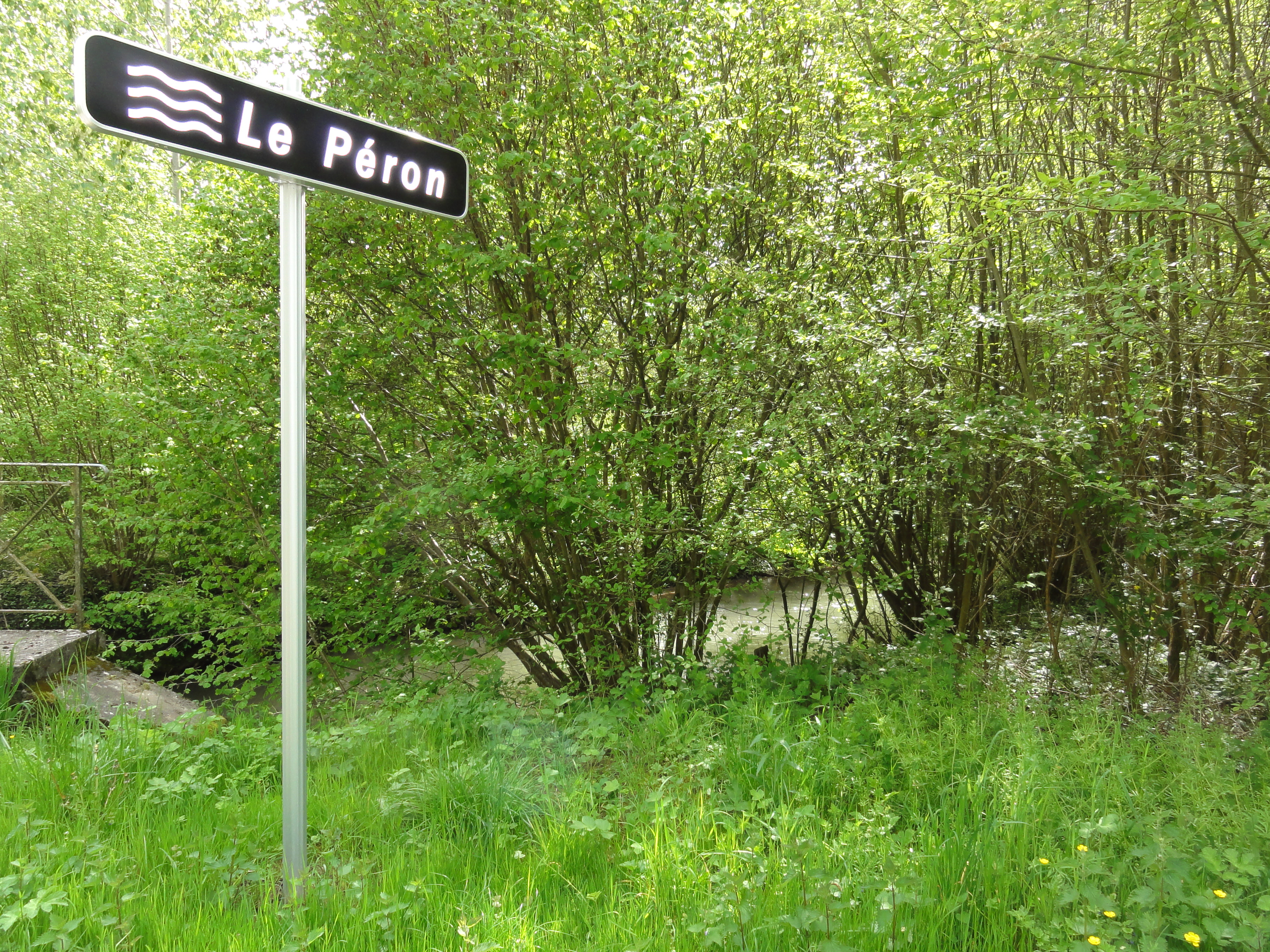 Mesbrecourt-Richecourt (Aisne) rivière le Péron